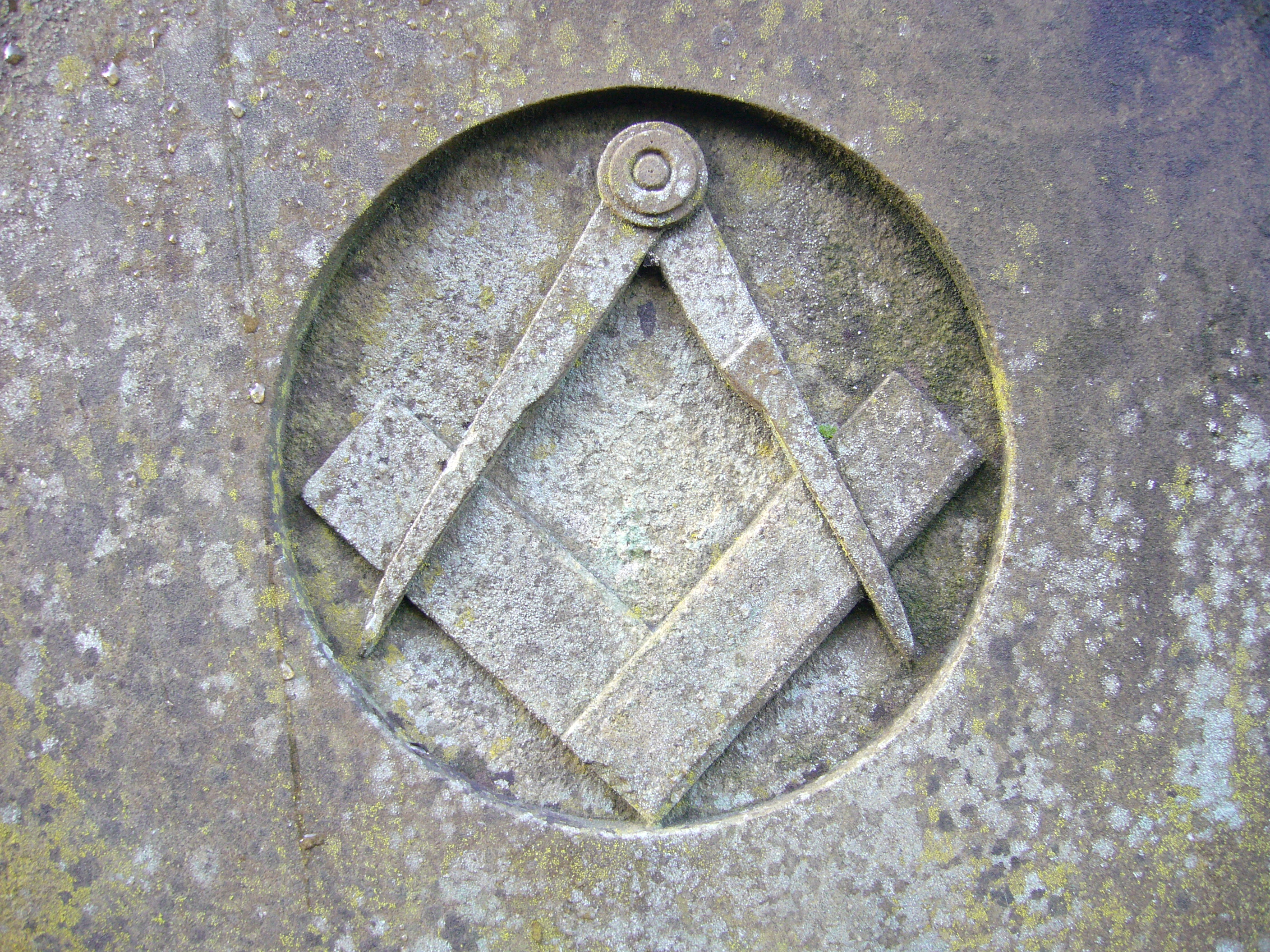 Square & compasses (Insignia of Freemasons) carved into stone. Part of the foundation stone on a masonic hall situated in the centre of Lancaster in the UK.